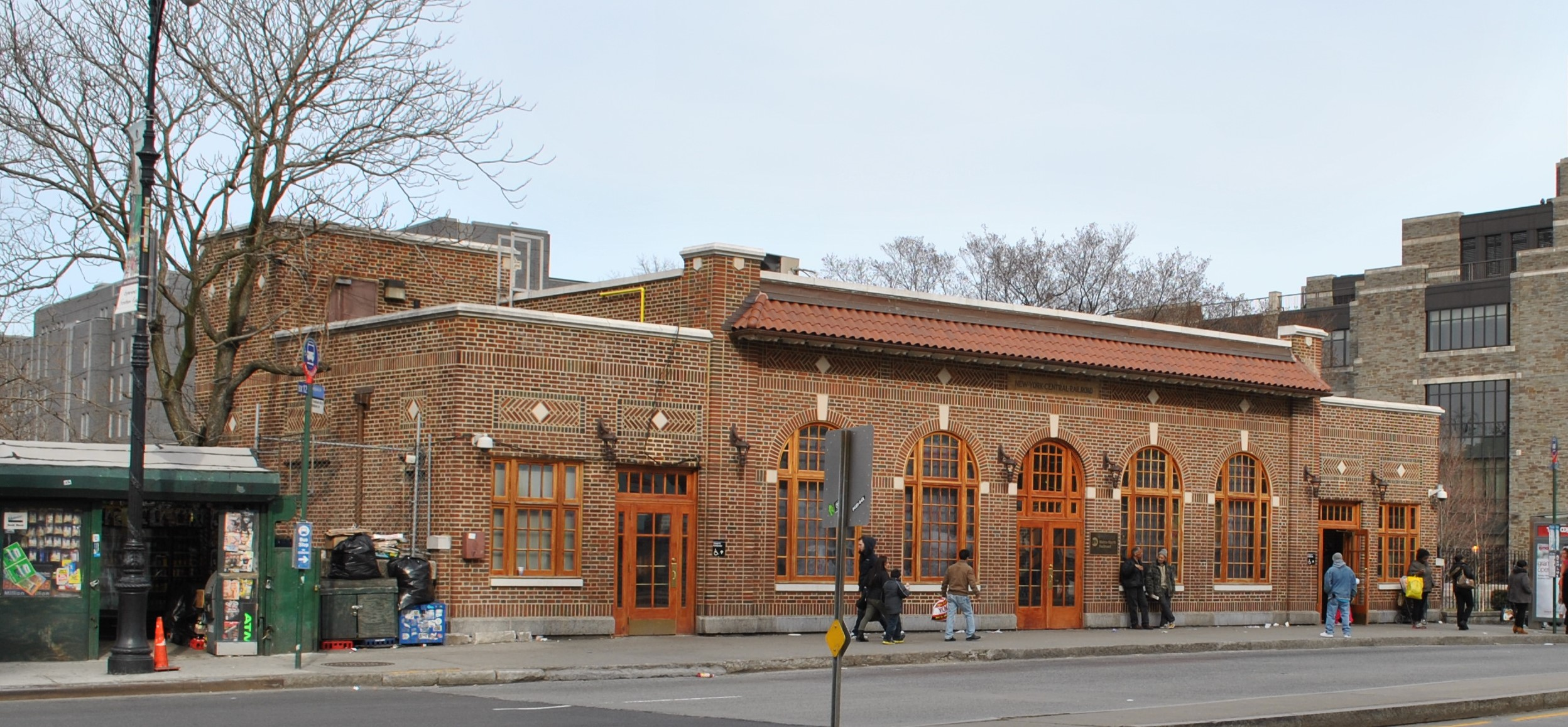 Fordham Metro North station